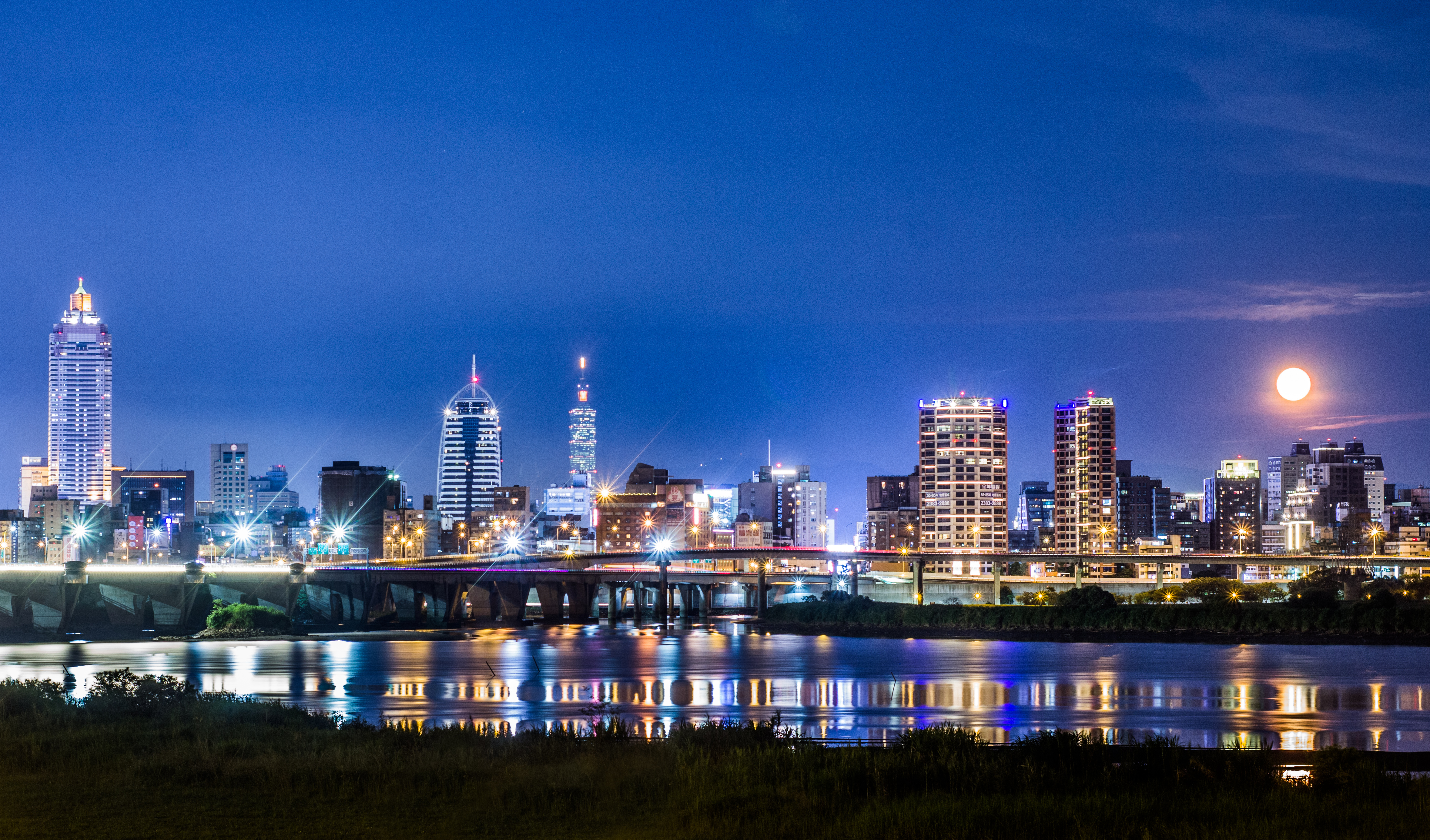 Skyline of Taipei, Taiwan in 2016 photographed from Zhongxiao Wharf